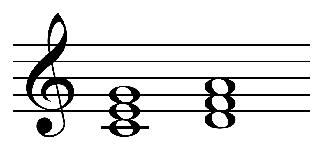 Supertonic and tonic in C.